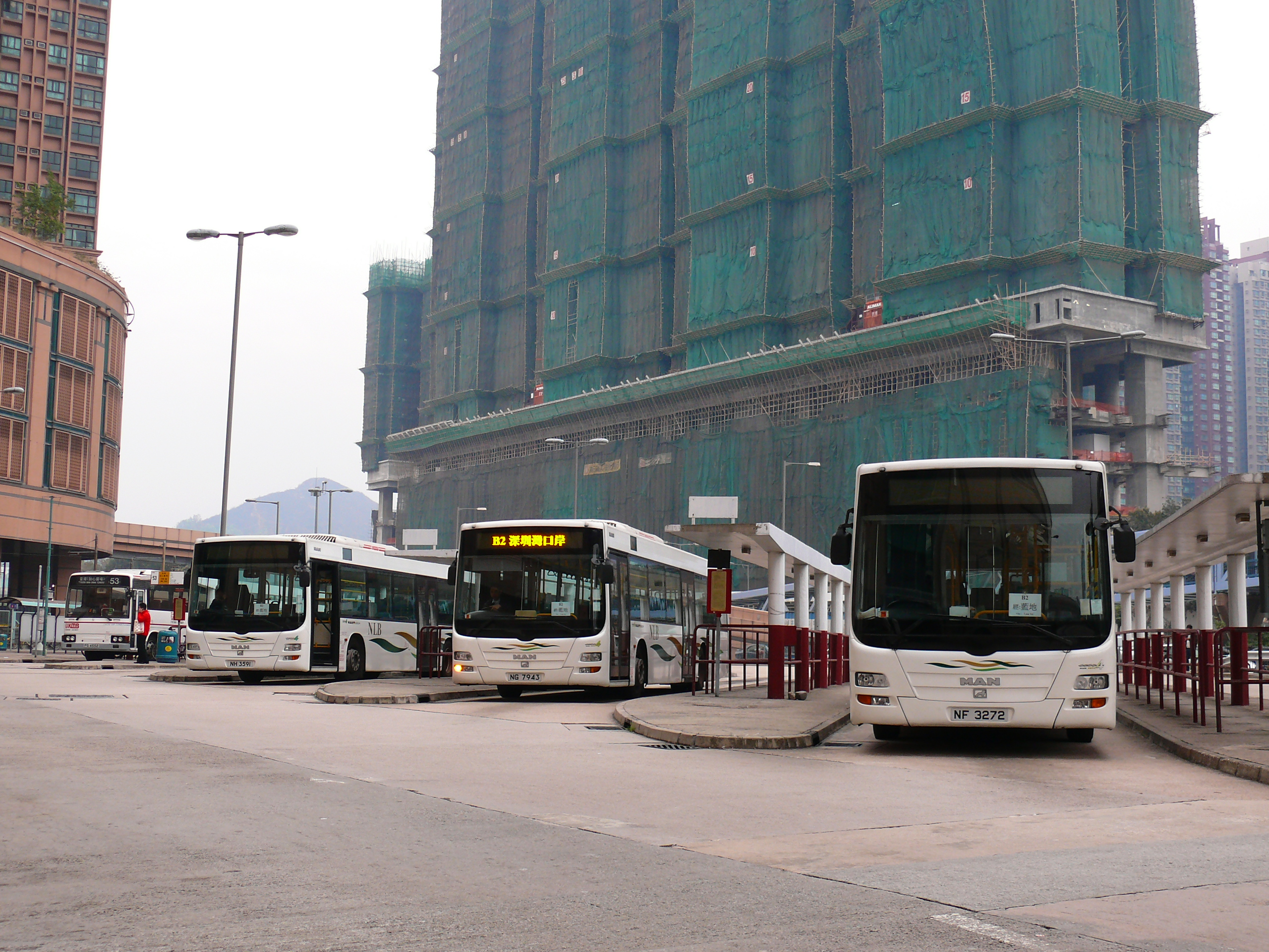 New Lantau Buses to Shenzhen Bay Port